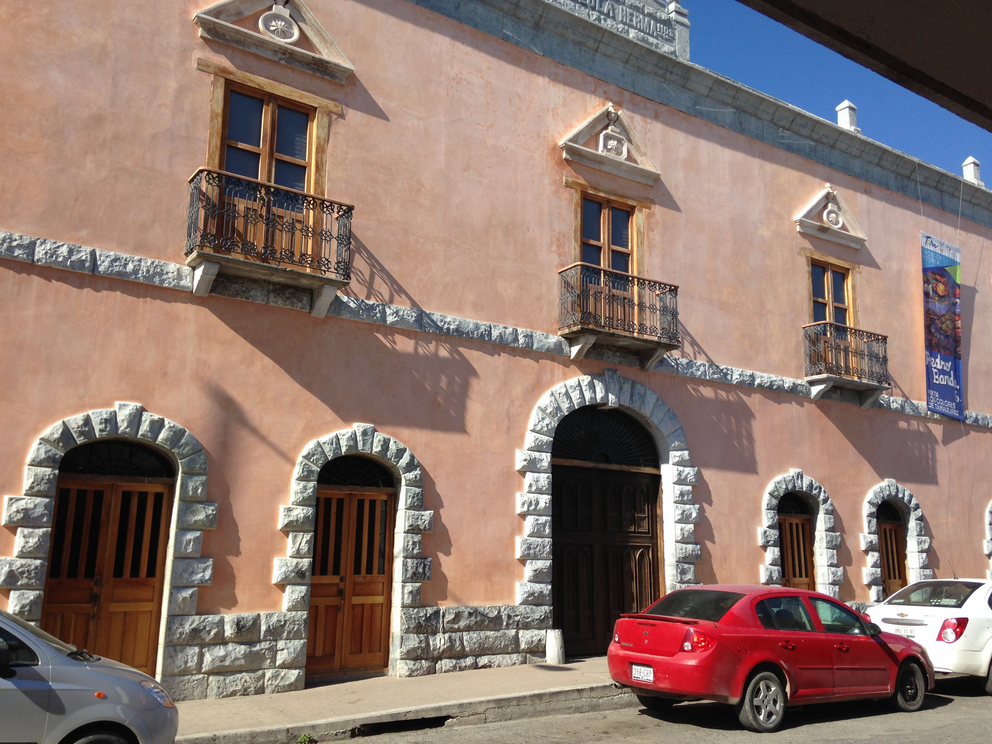 Casa Hermanos Filizola, restaurada para habitar la Pinacoteca Tamaulipas, Ciudad Victoria, Mexico